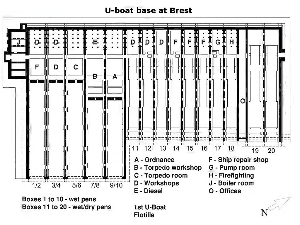 U-boat base at Brest